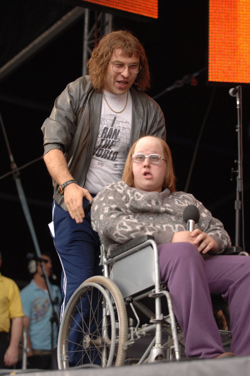 Little Britain comedians David Williams and Matt Lucas at Live 8